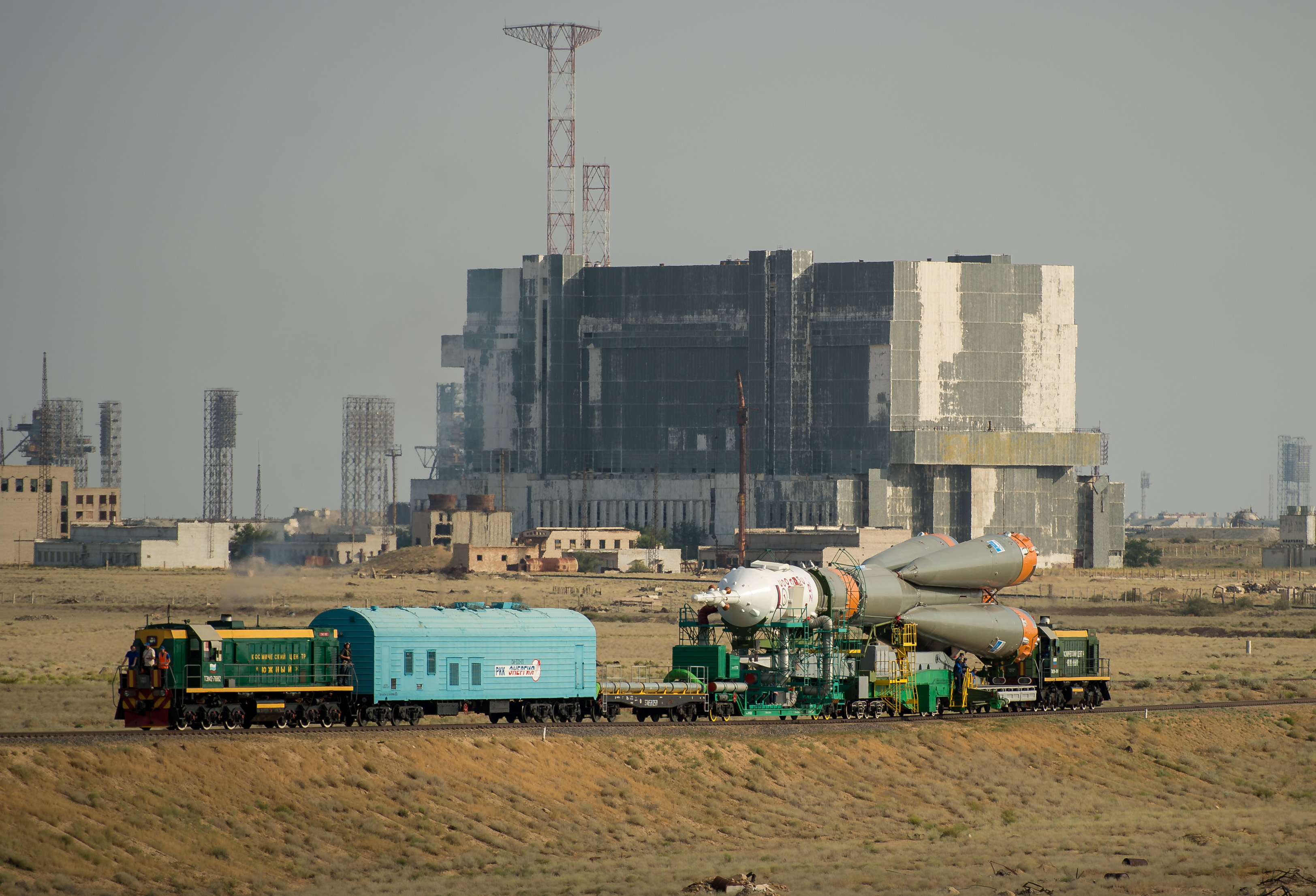 The Soyuz MS-01 spacecraft is rolled out by train to the launch pad at the Baikonur Cosmodrome, Kazakhstan, Monday, July 4, 2016. NASA astronaut Kate Rubins, cosmonaut Anatoly Ivanishin of the Russian space agency Roscosmos, and astronaut Takuya Onishi of the Japan Aerospace Exploration Agency (JAXA) will launch from the Baikonur Cosmodrome in Kazakhstan the morning of July 7, Kazakh time (July 6 Eastern time.) All three will spend approximately four months on the orbital complex, returning to Earth in October.